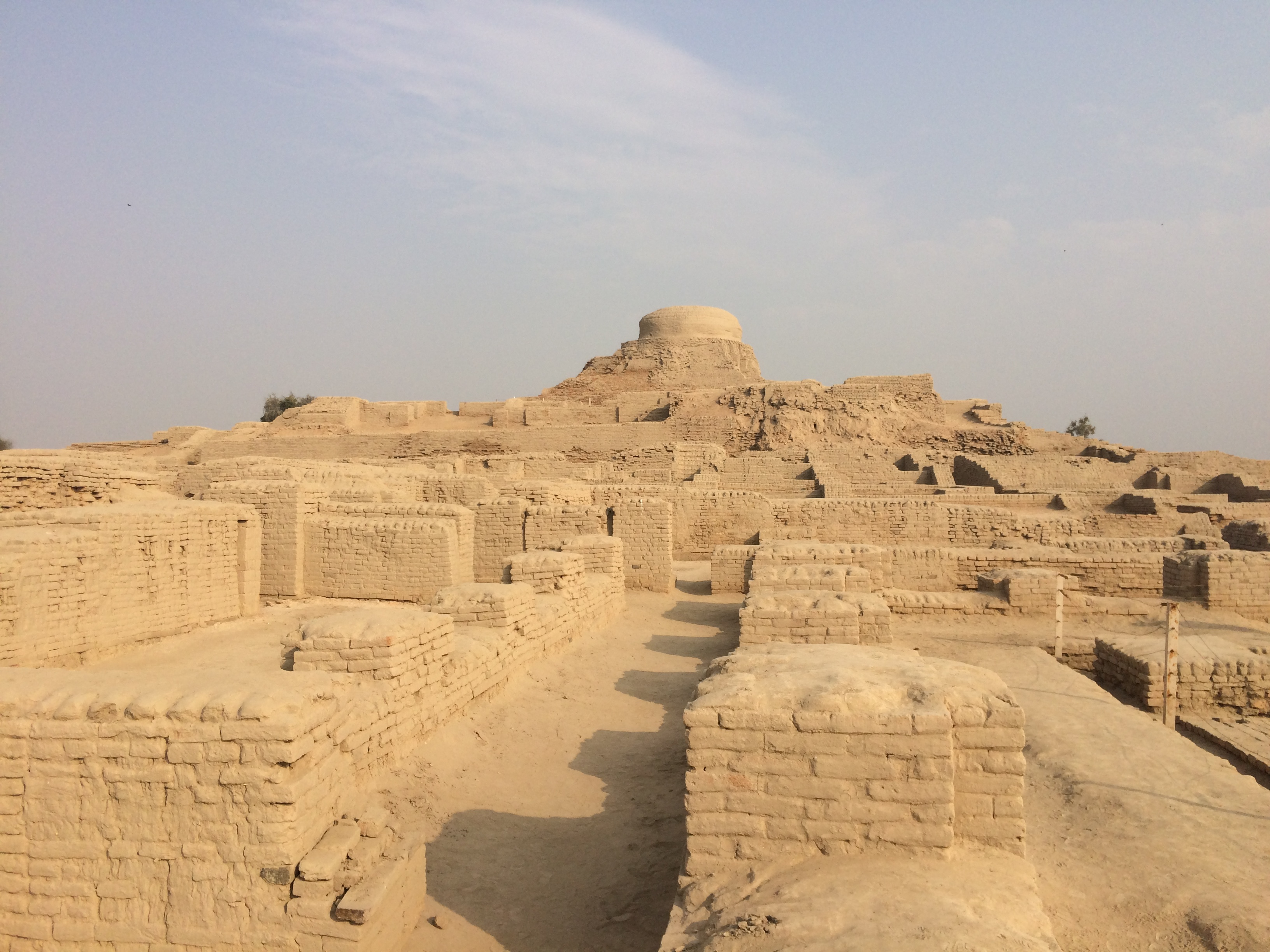 5000 years old civilization of Indus valley